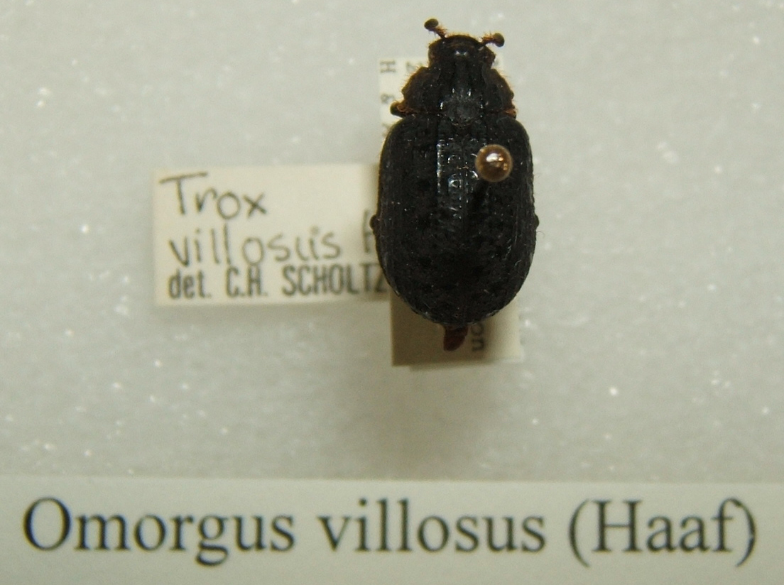 Omorgus villosus adult taken by Shawn Hanrahan at the Texas A&M University Insect Collection in College Station, Texas.